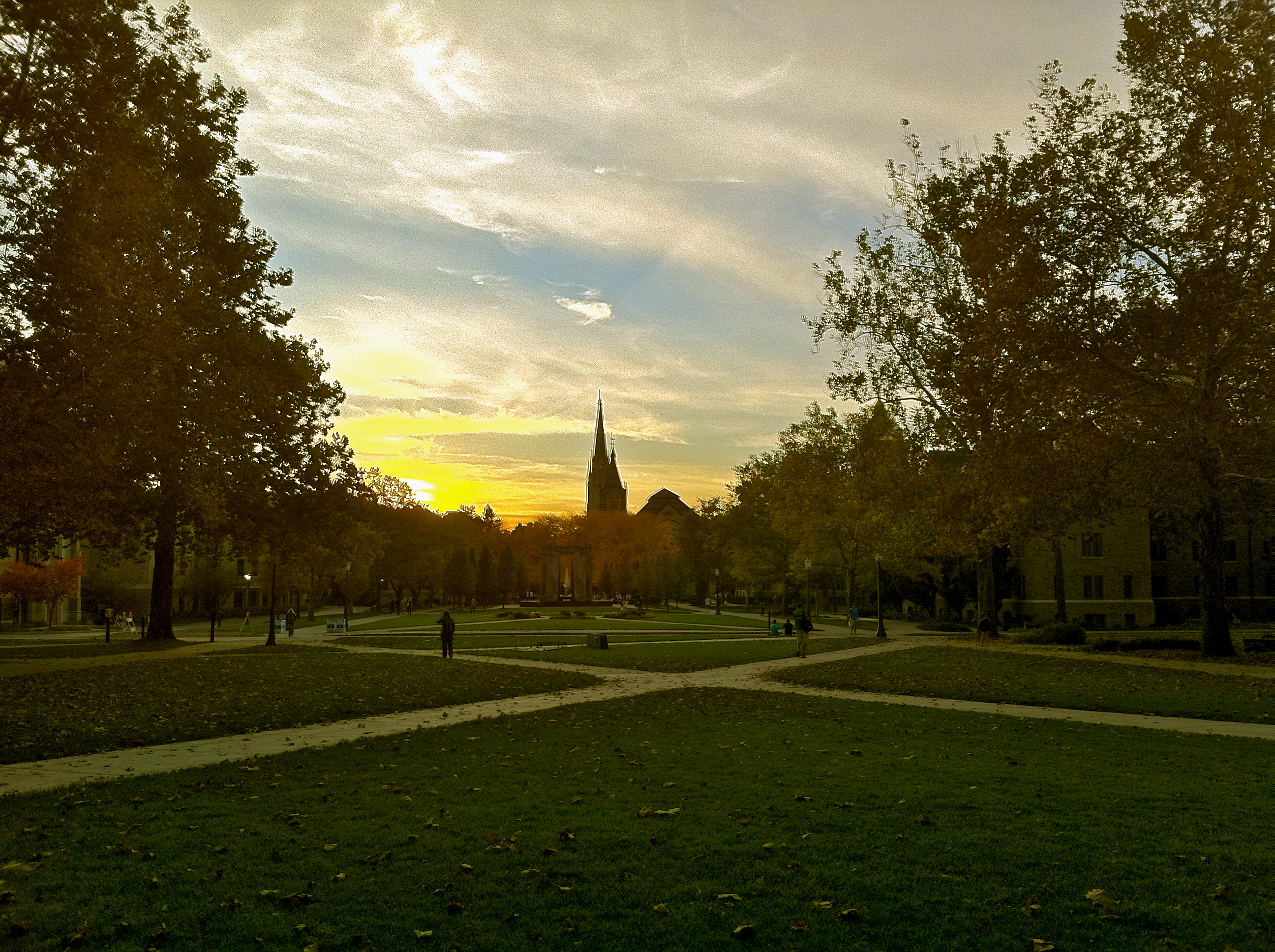 Photo taken from in front of the Hesburgh Library.